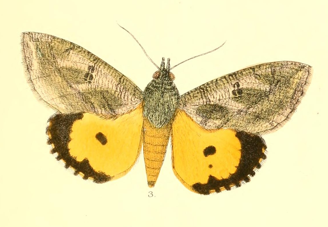 Argadesa maternamale Moore, Frederic 1880 On the genera and species of the Lepidopterous Subfamily Ophiderinae inhabiting the Indian Region. Zoological Society of London